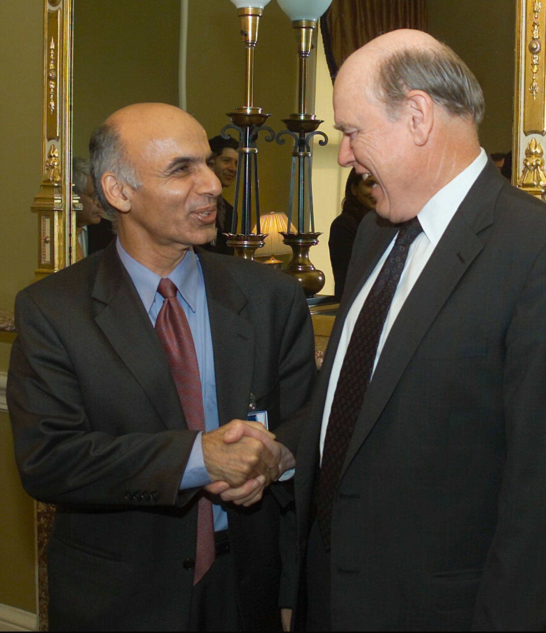 Treasury Secretary John Snow meets with Afghan Finance Minister Dr. Ashraf Ghani to discuss the progress of economic reconstruction in Afghanistan.